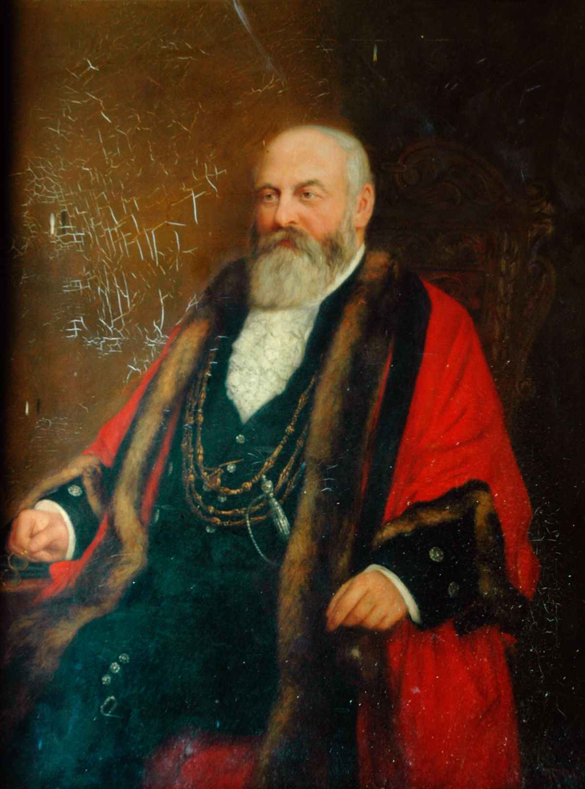 Oil on canvas portrait of Alderman Sir Joseph Terry, from The Mansion House and Guildhall collection in York, England.